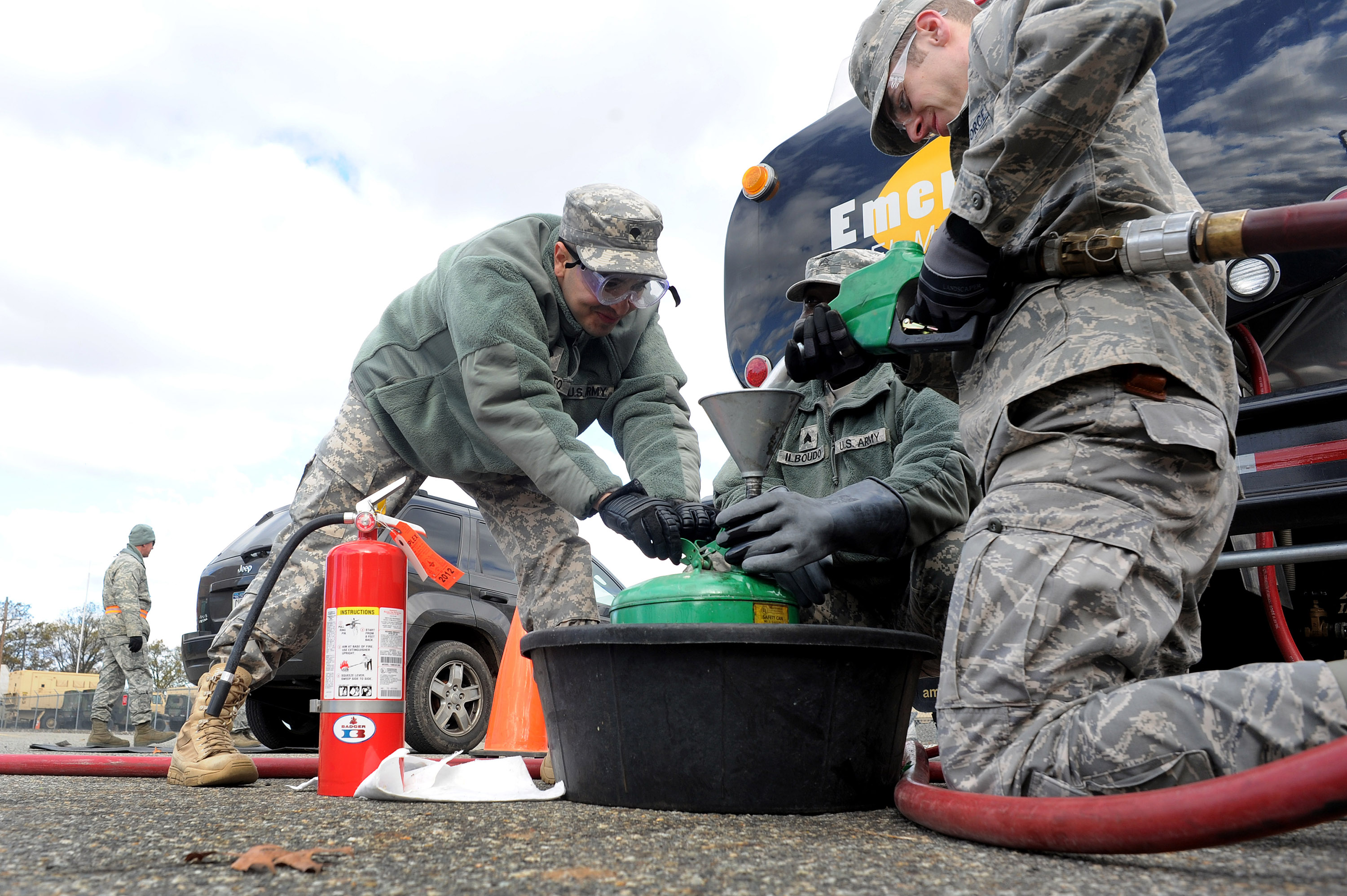 Soldiers and Airmen with the New York National Guard distribute fuel at the Staten Island Armory, Staten Island, N.Y., Saturday, Nov. 3, 2012, to those in the local area affected by Hurricane Sandy. The fuel was provided by the Federal Emergency Management Agency and distributed at various armories throughout the New York and northern New Jersey areas. (U.S. Army Photo by Sgt. 1st Class Jon Soucy)(Released)